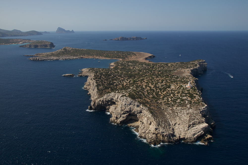 Aerial view of the little island of Sa Conillera, nearby St. Antoni de Portmany, Ibiza, Balearic Island, Spain.